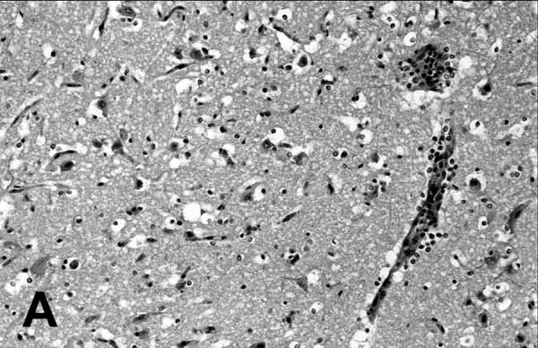 Tissue lesions from a harbor seal (Phoca vitulina) with phocine distemper virus infection. Cerebral cortex with nonsuppurative encephalitis. Hematoxylin and eosin staining.